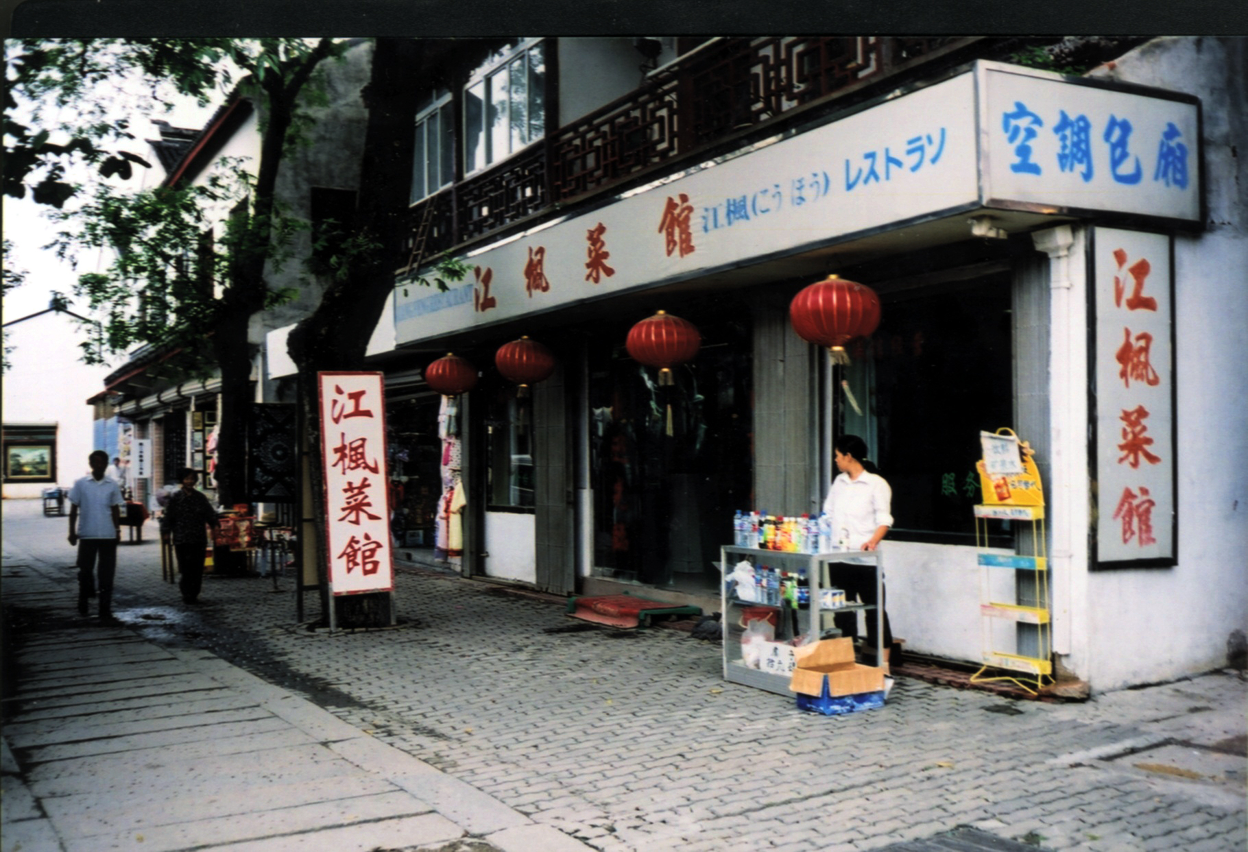 A street corner of Feng Qiao town, Suzhou 枫桥一隅